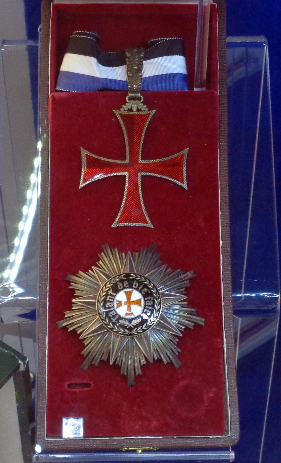 Order of Prince Henry, insignias of Grand Officer. Portugal. The exhibition of the Tallinn Museum of Orders of Knighthood, Estonia.